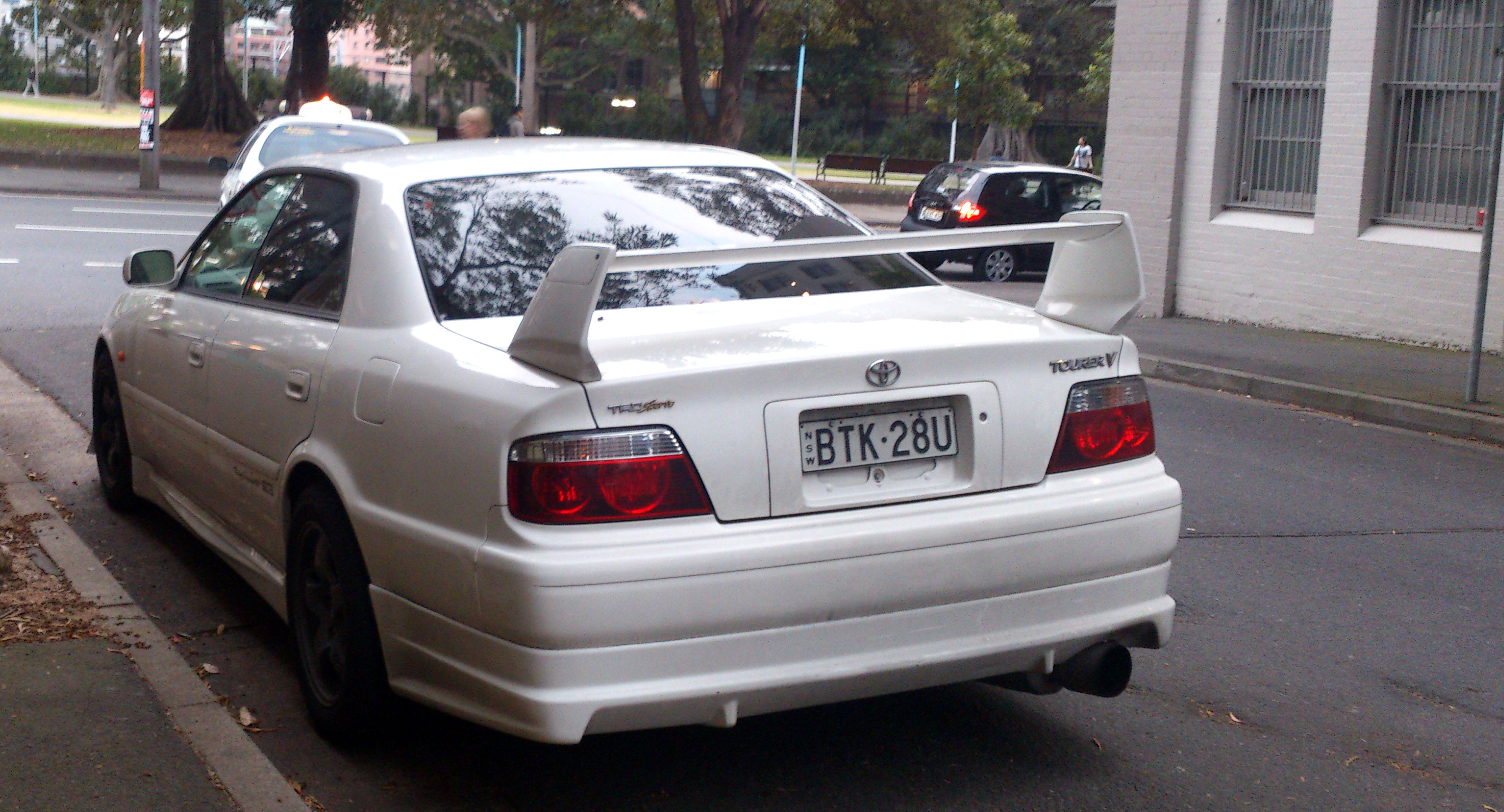 Toyota Chaser Tourer V